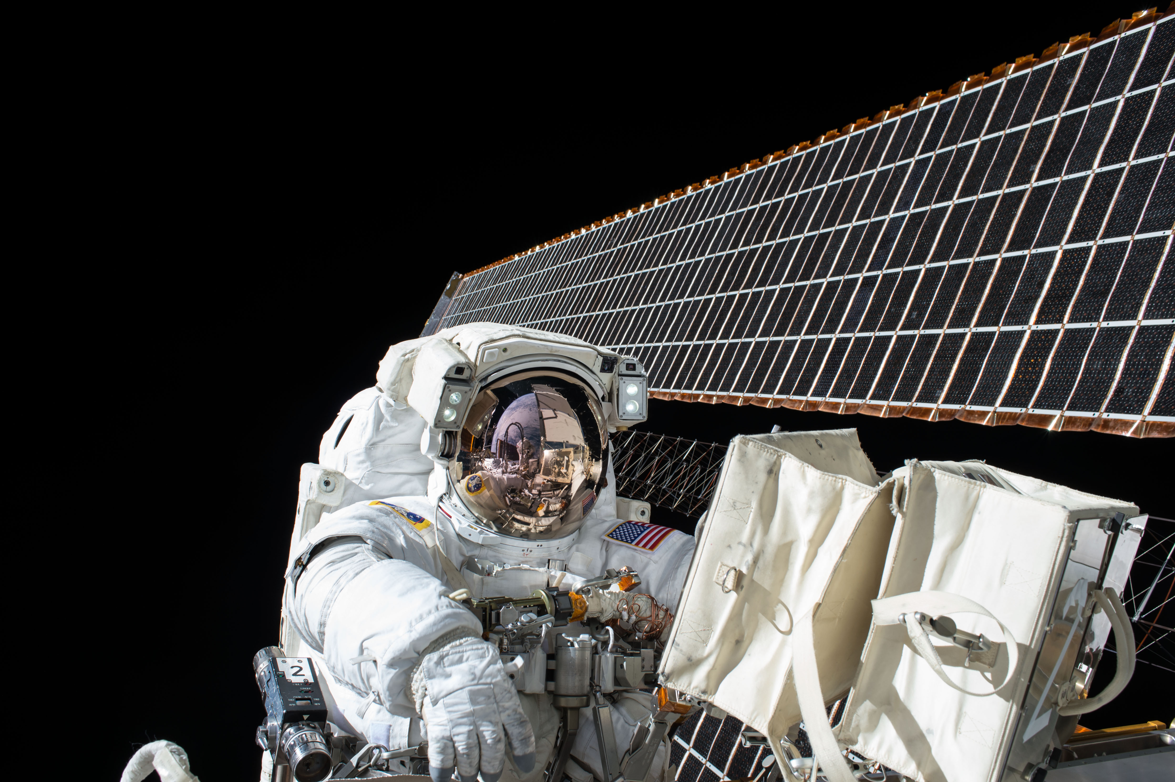 NASA astronaut Scott Kelly is seen while working outside of the International Space Station during a spacewalk on Nov. 6, 2015. Kelly and fellow NASA astronaut Kjell Lindgren restored the port truss (P6) ammonia cooling system to its original configuration and returned ammonia to the desired levels in both the prime and back-up systems. The spacewalk lasted for seven hours and 48 minutes.